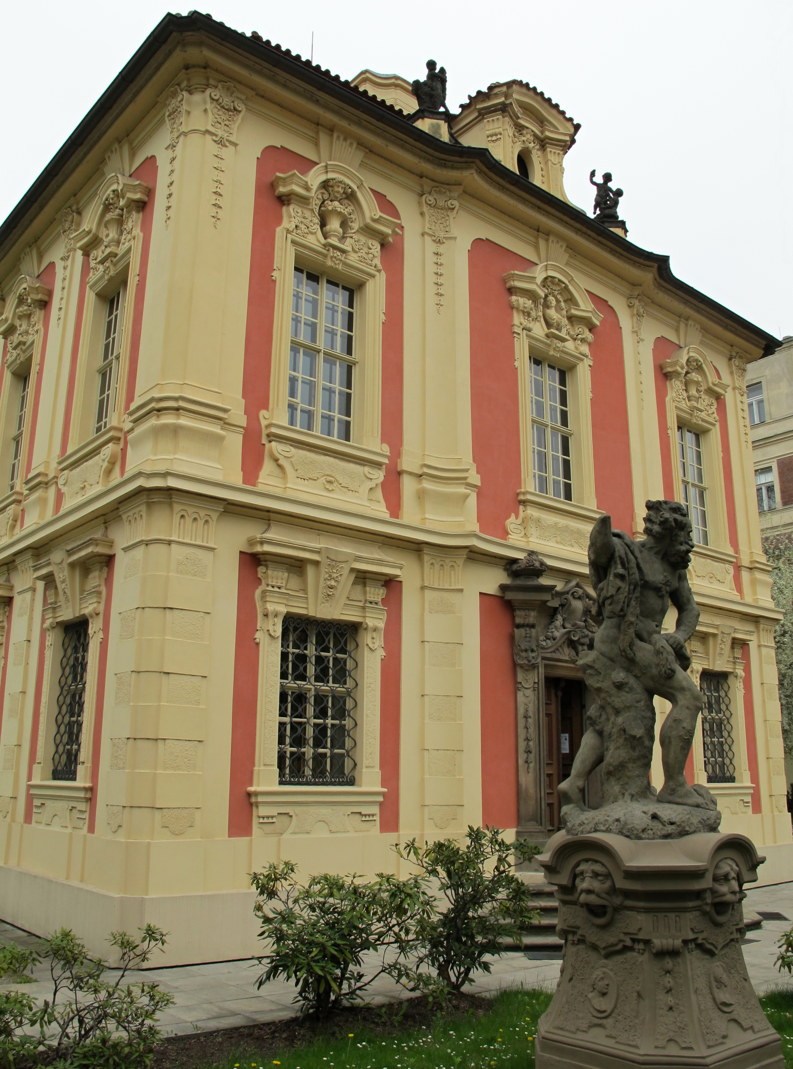 Musem of the Antonin Dvorak in Ke Karlovu Street, Prague, Czech Republic